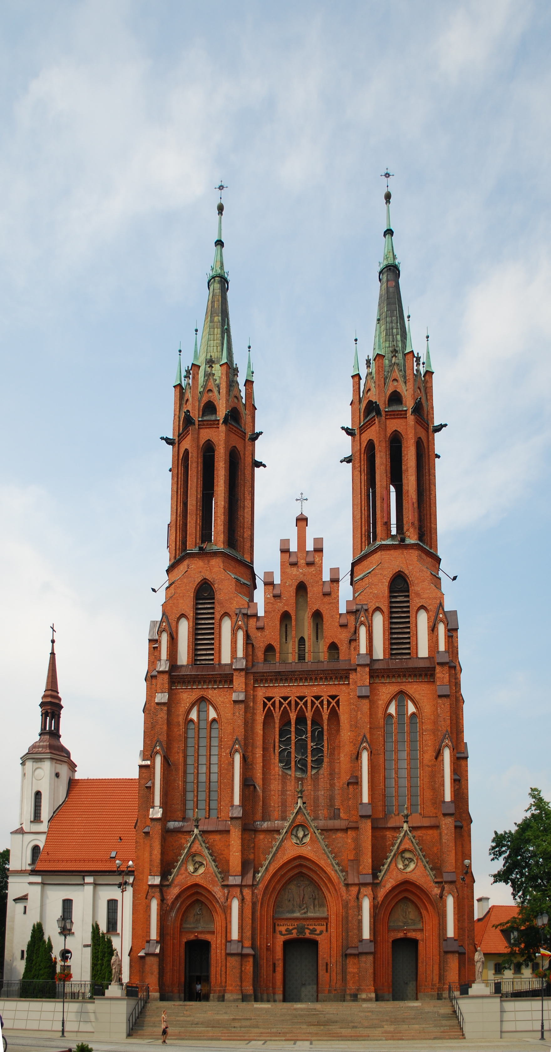 Cathedral in Białystok, Poland